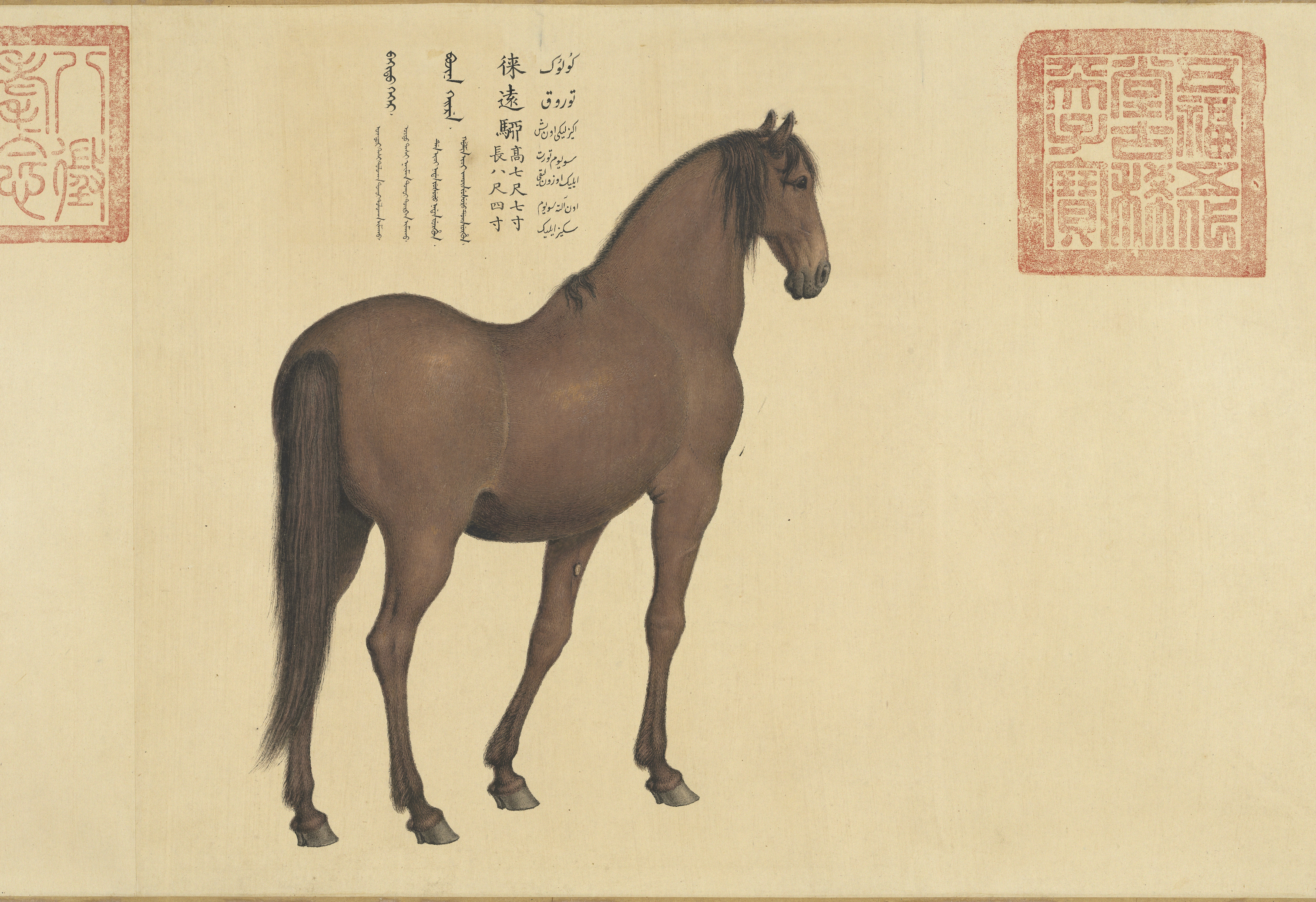 This painting is one of Giuseppe Castiglione's Afghan Four Steeds, features a horse named Laiyuanliu (徕远骝, literally Far-flung Bay).